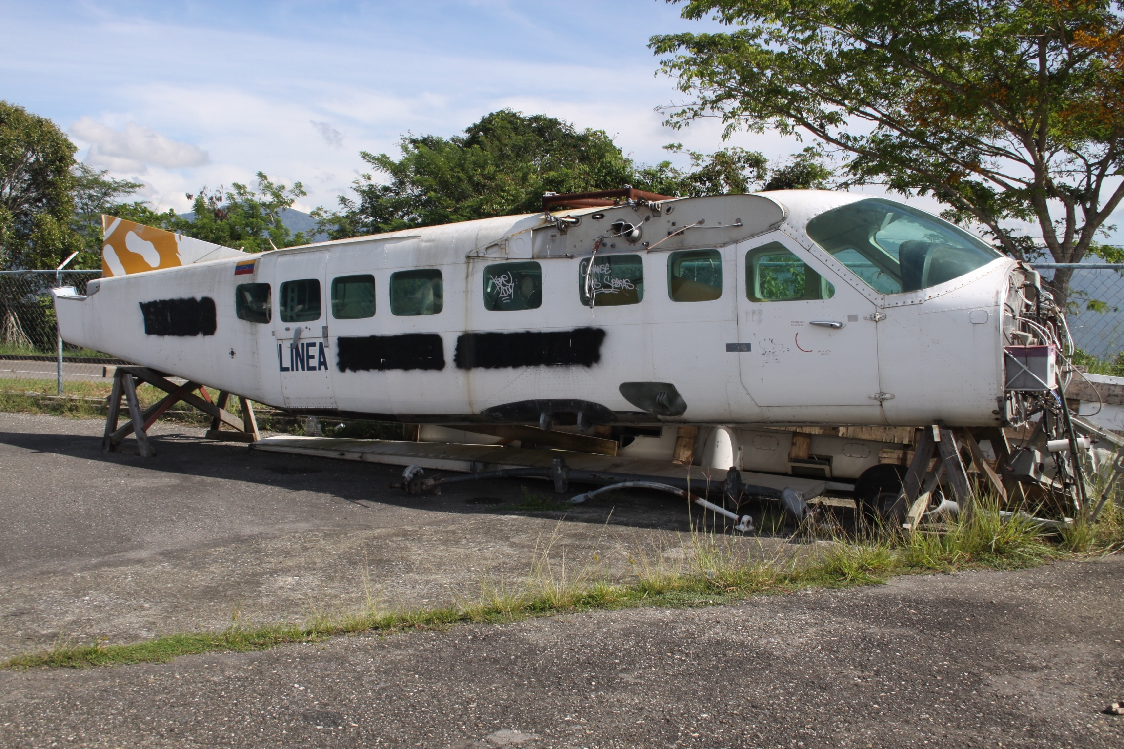 At Charallave Aeropuerto. Ditched and written off 26.8.2009 off La Tortuga.